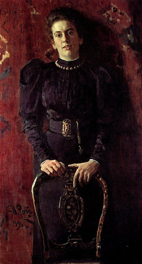 Portrait of Tatiana Lvovna Tolstaya, daughter of the writer